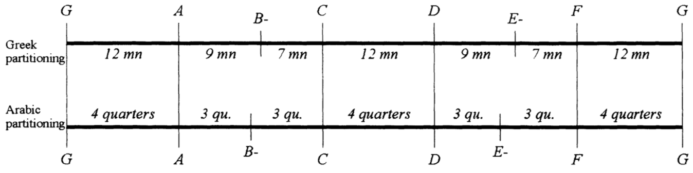 A simple graph (including only simple lines and letters), which is a recreation of the original graph by Mikhail Mishaqa (from his work form the 1800s).